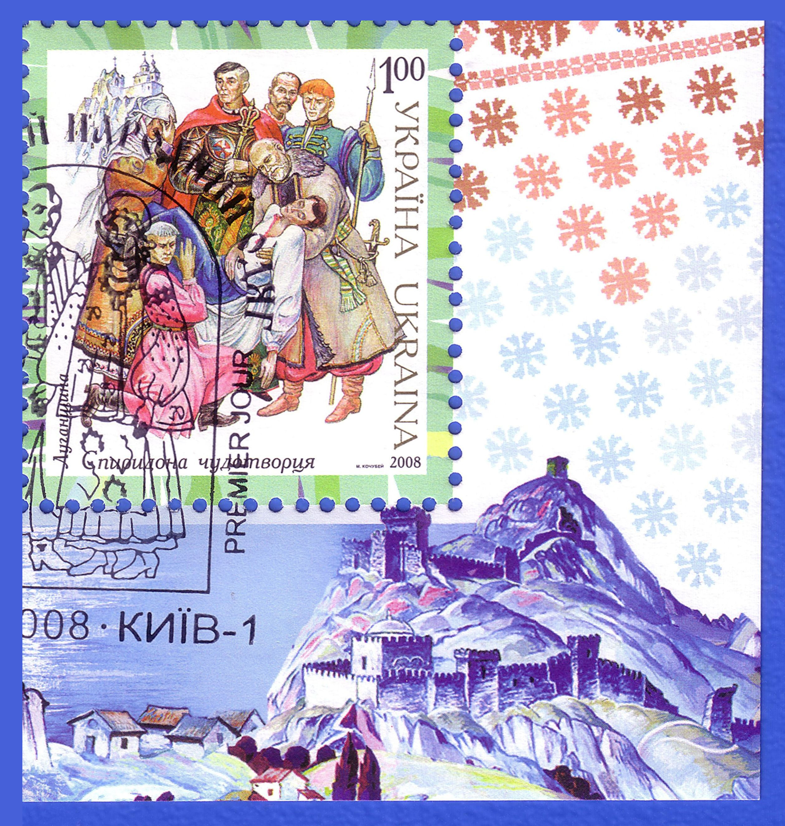 Stamp with Ukrainian traditional clothing - Lugansk (on the right Sudak). 2008.